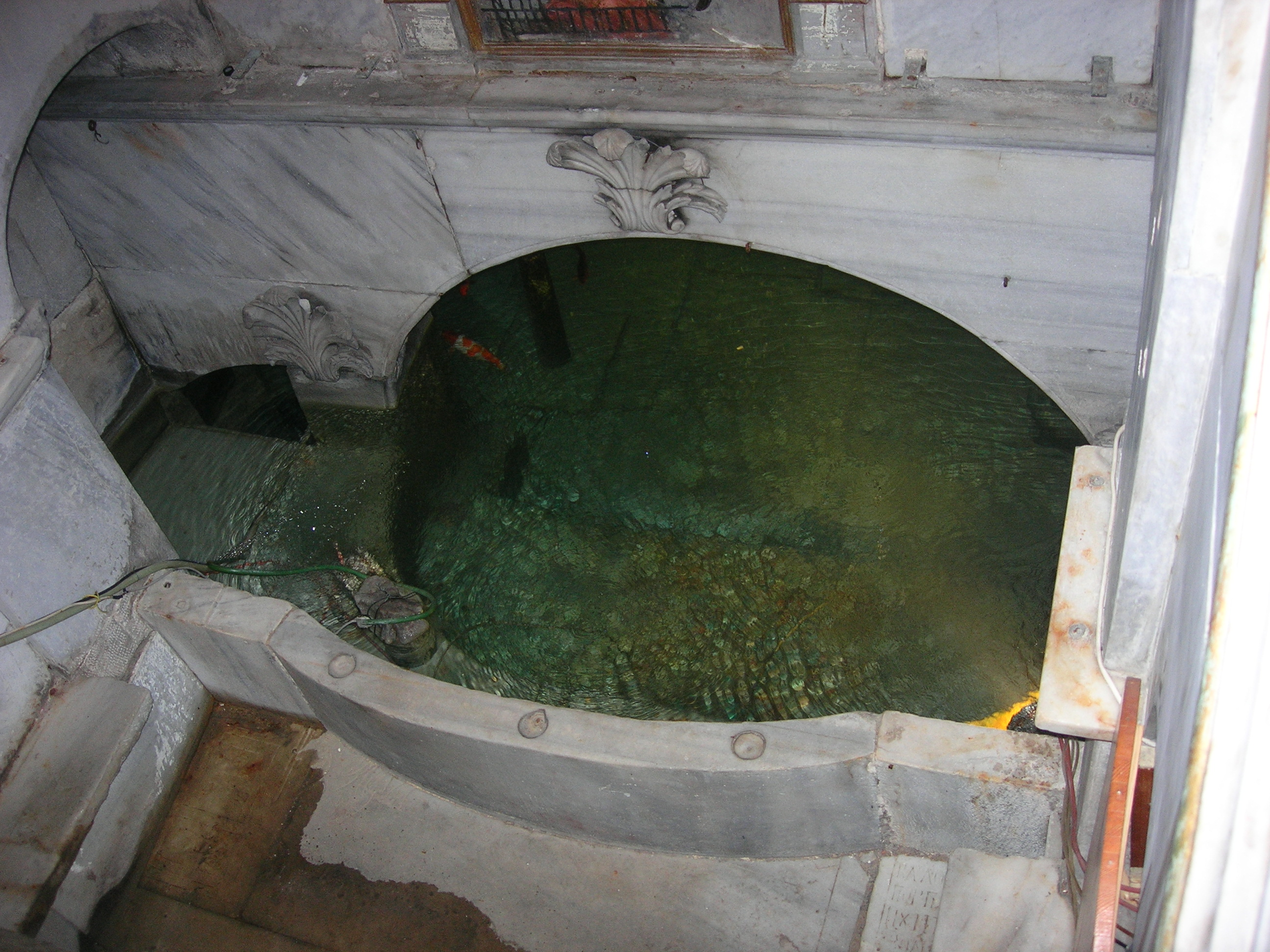 The Hagiasma of St. Mary of the Source in Istanbul